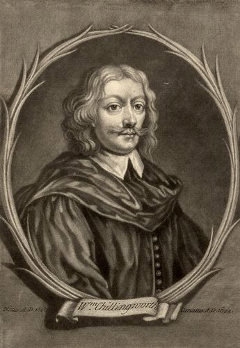 Portrait of William Chillingworth (1602-1644).